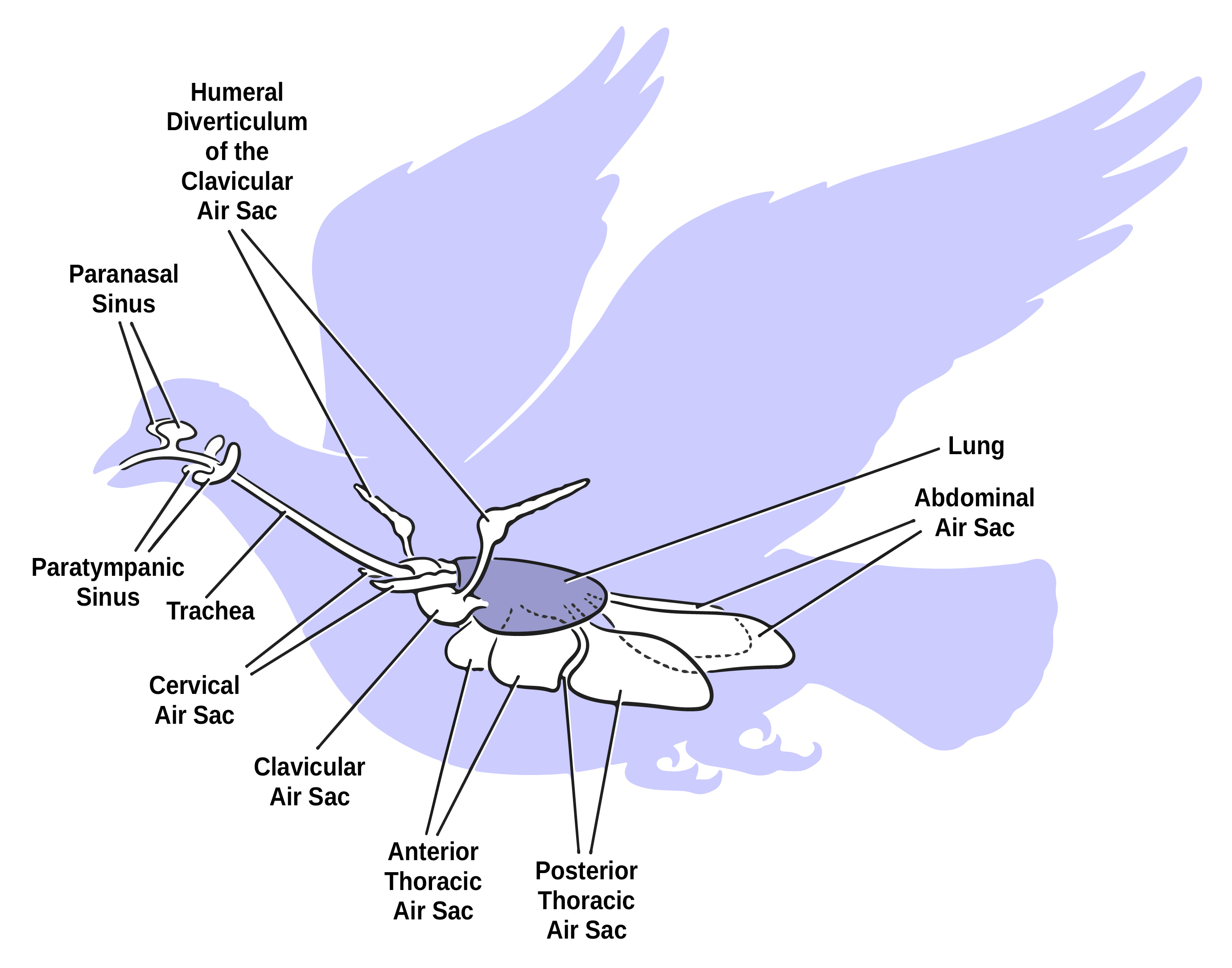 Original caption: "Figure 1. Cranial sinus and postcranial air sac systems in birds. All pneumatic spaces are paired except the clavicular air sac, and the lungs are shaded. Abbreviations: aas, abdominal air sac; atas, anterior thoracic air sac; cas, cervical air sac; clas, clavicular air sac; hd, humeral diverticulum of the clavicular air sac; lu, lung; pns, paranasal sinus; ptas, posterior thoracic air sac; pts, paratympanic sinus; t, trachea."